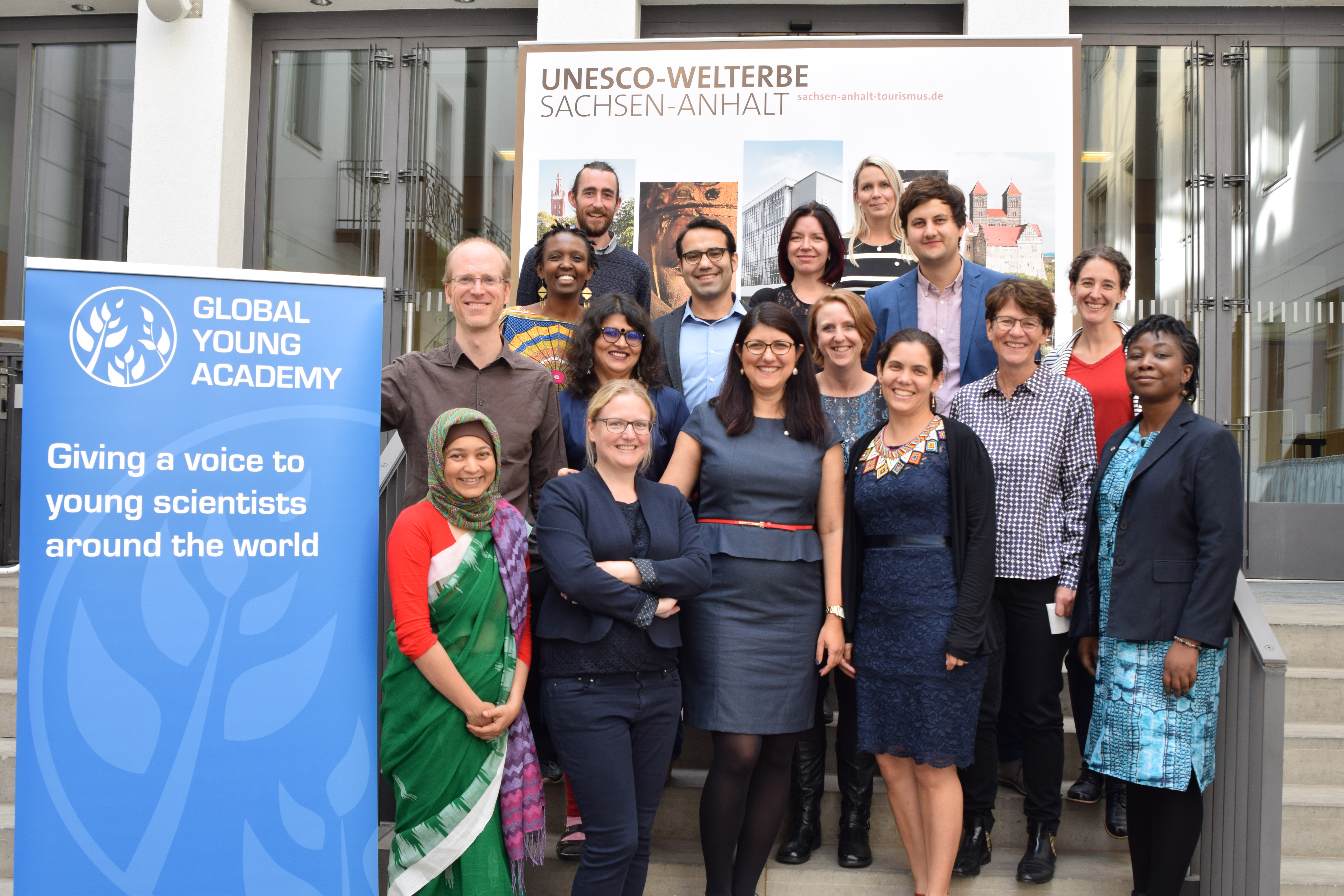 Executive Committee of the Global Young Academy 2019, a global science academy with elected members. Here together with office staff and Managing Director.